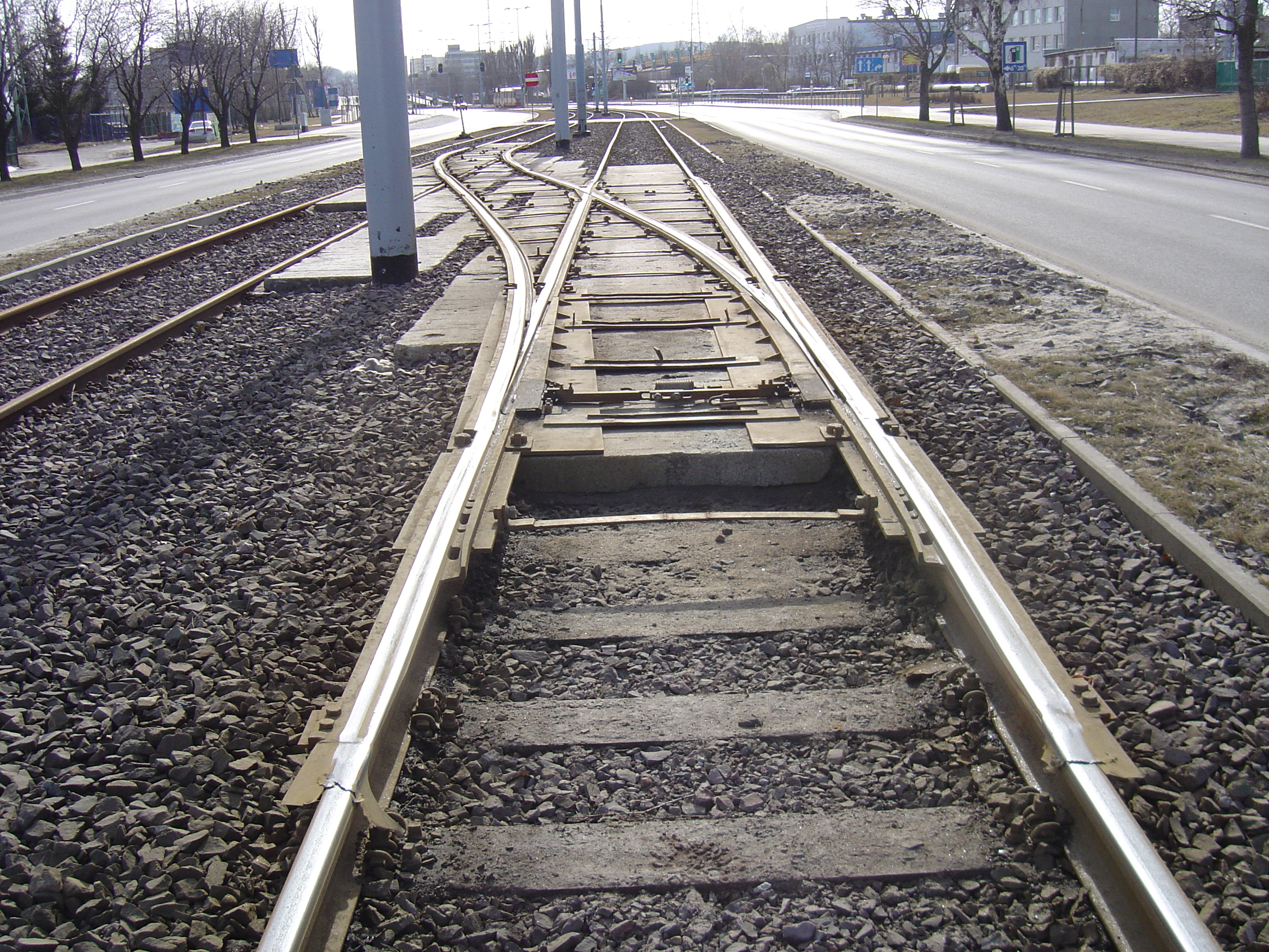 Temporary point near the tram stop Mostostal in Gdańsk.